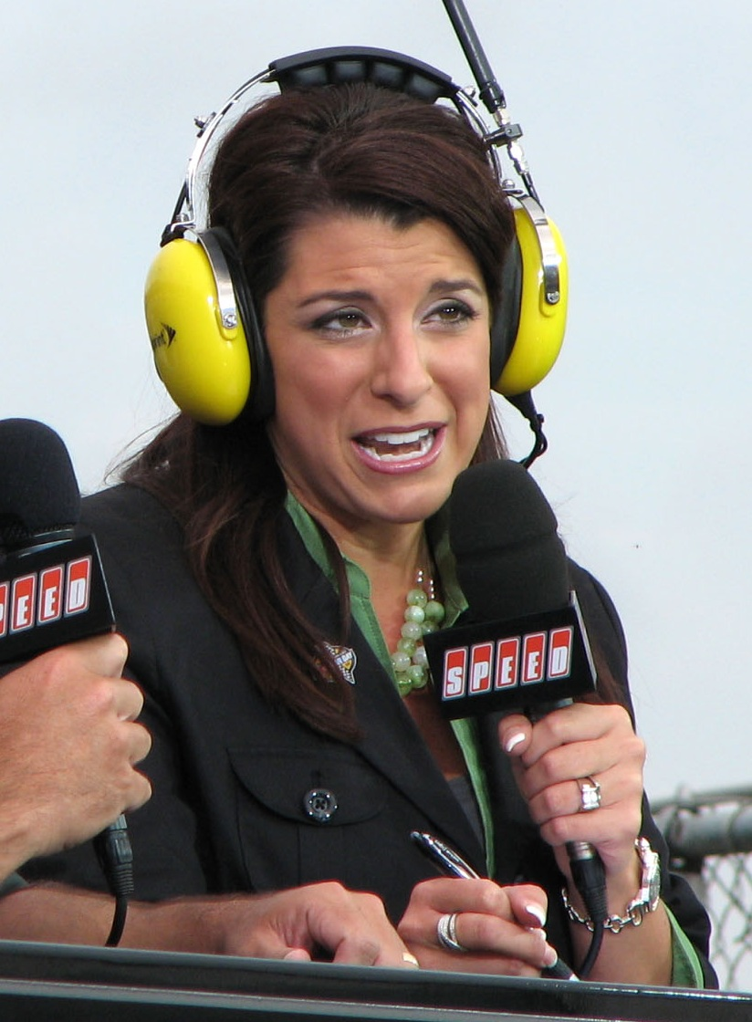 SPEED Channel announcer Wendy Venturini (original pic includes Hermie Sadler)